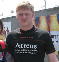 Steve Wallace posing with a fan at the 2008 NASCAR Nationwide Series event at Mexico City